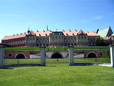 Warsaw Royal Castle form Marek and Ewa Wojciechowscy from with the permission of the authors